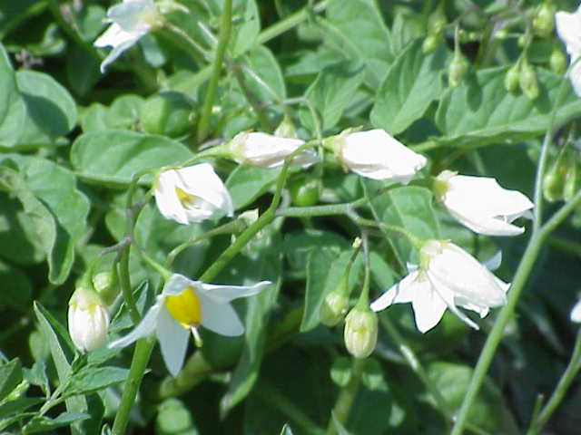 Species: Solanum canasense Family: Solanaceae Image No. 1